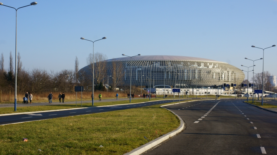 Stanisława Lema Street in Kraków